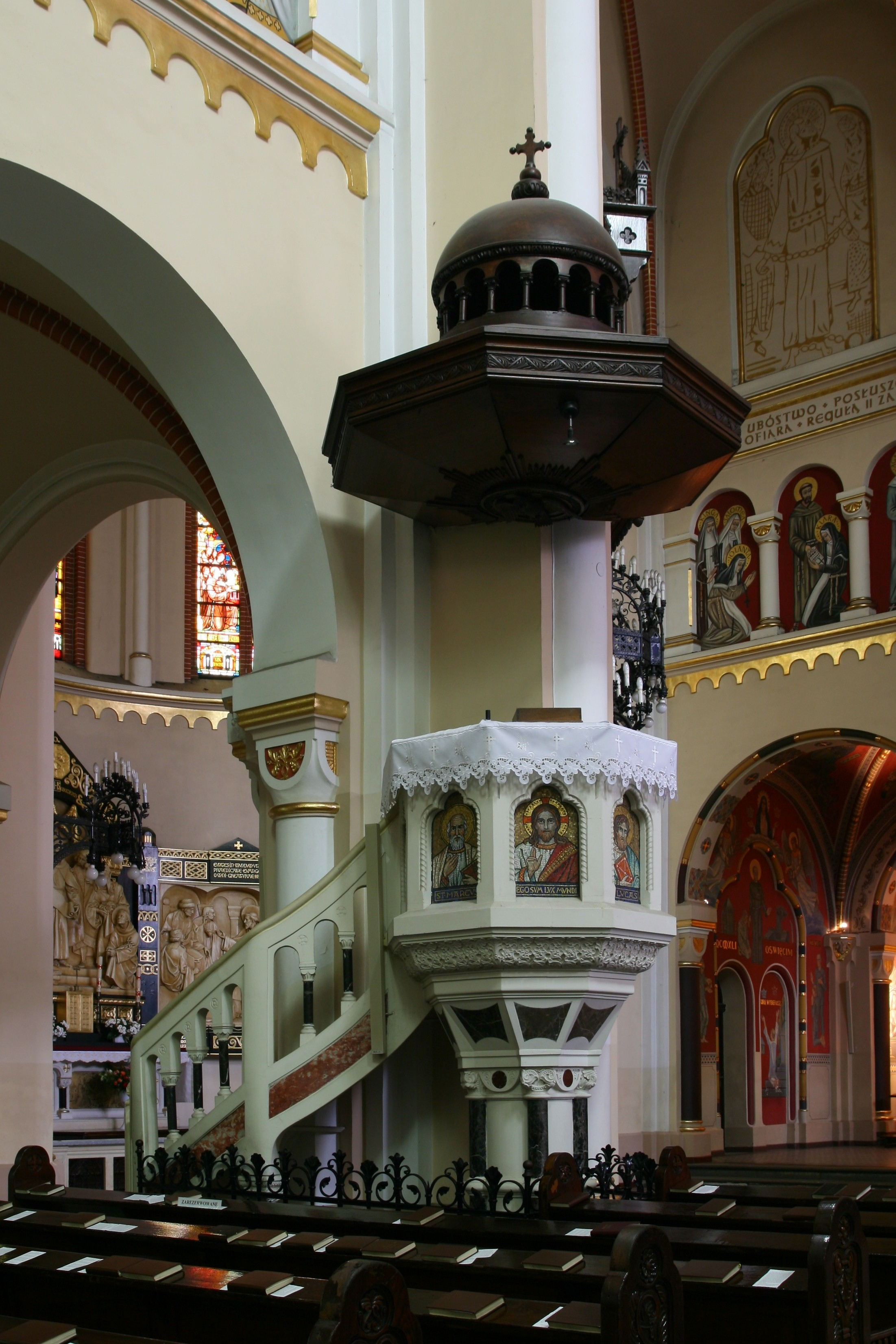 Basilica of St.Luis in Katowice.